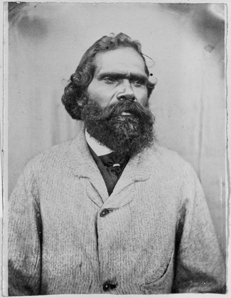 Photograph of Simon Wonga, age 37